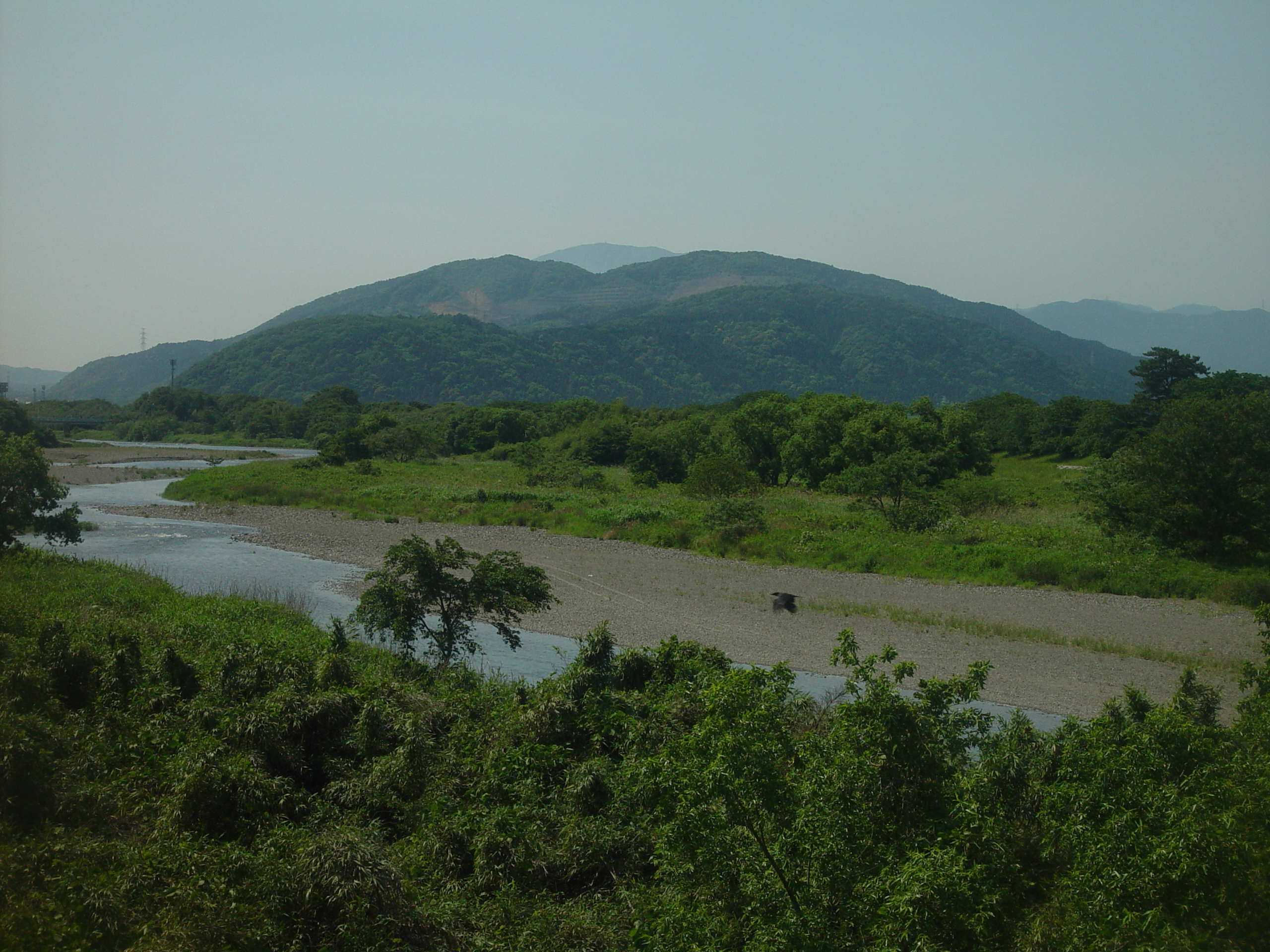 Mount Nangu seen from Makita River in Gifu prefecture, Japan.